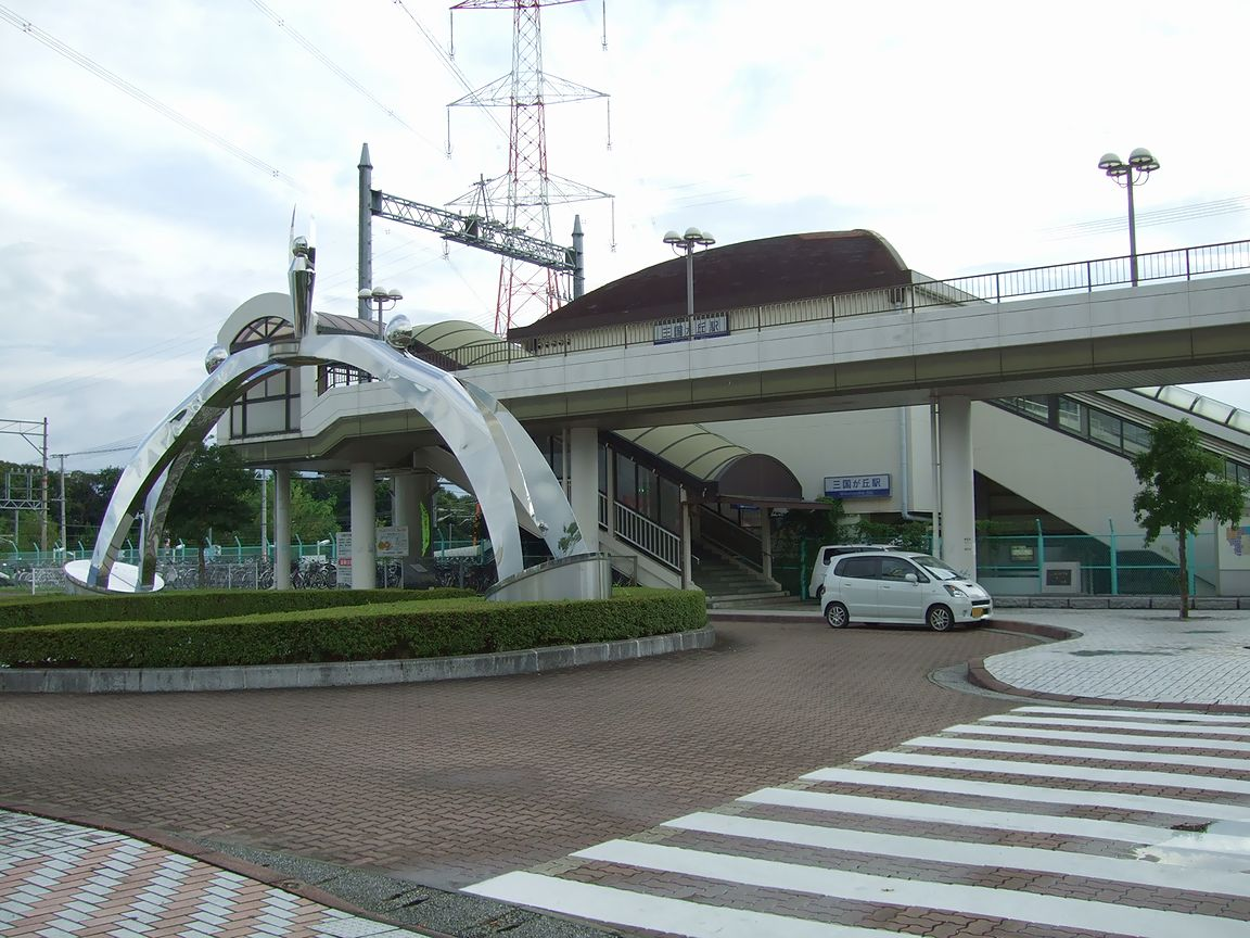 Mikunigaoka Station, Nishitetsu Tenjin Omuta Line.